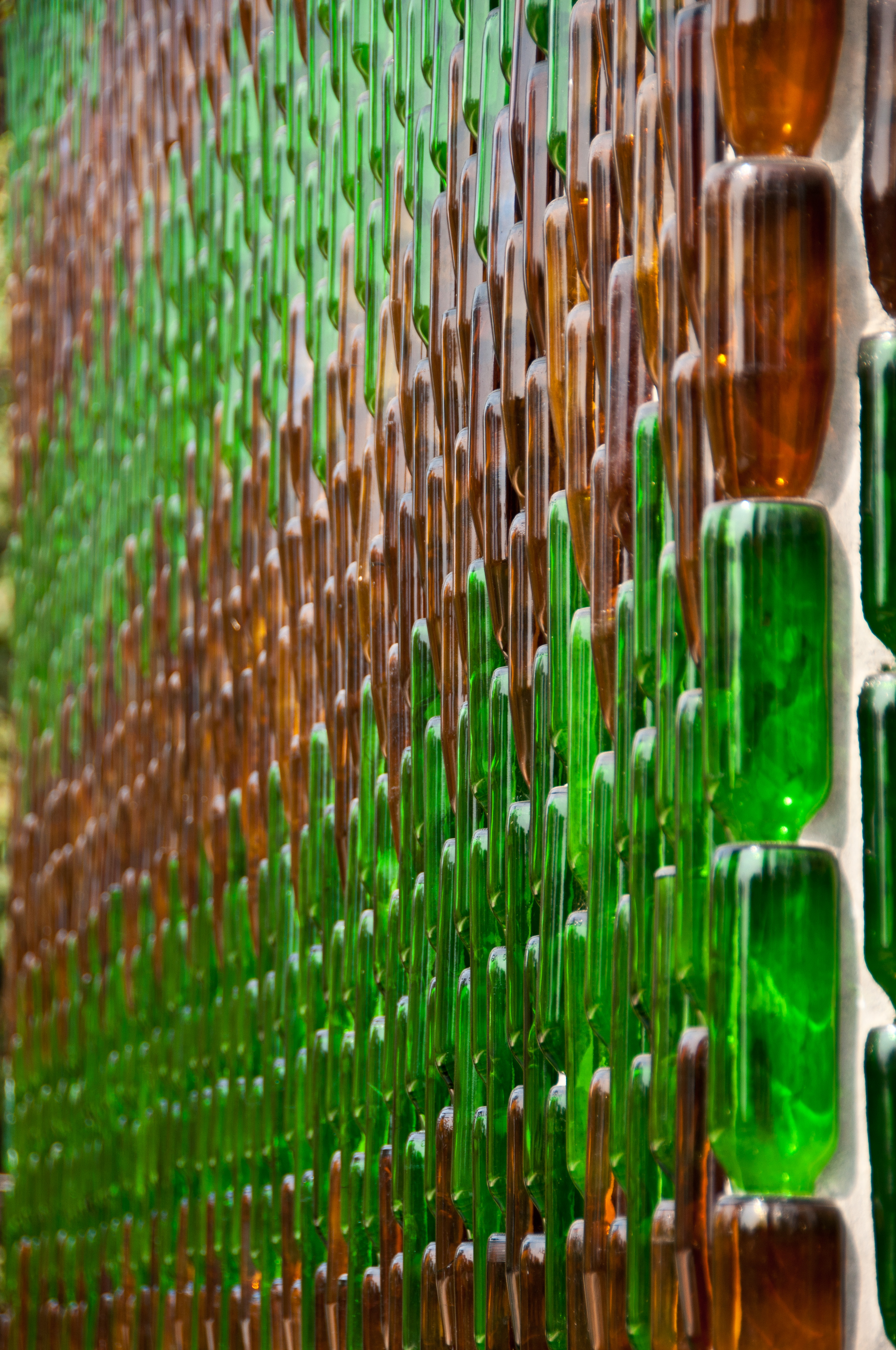 Detail of one of the walls of Wat Pa Maha Chedio Kaew, more commonly know as "The Million Bottle Temple" or "Wat Lan Kuad" in Thai. This Buddhist temple about 300 miles from Bangkok is decorated with more than a million recycled bottles.